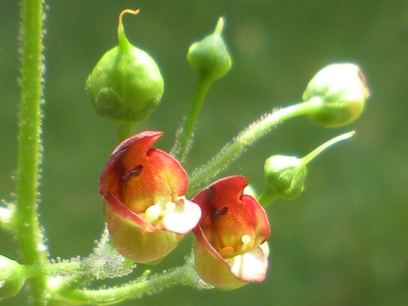 Flowers of scrophularia nodosa